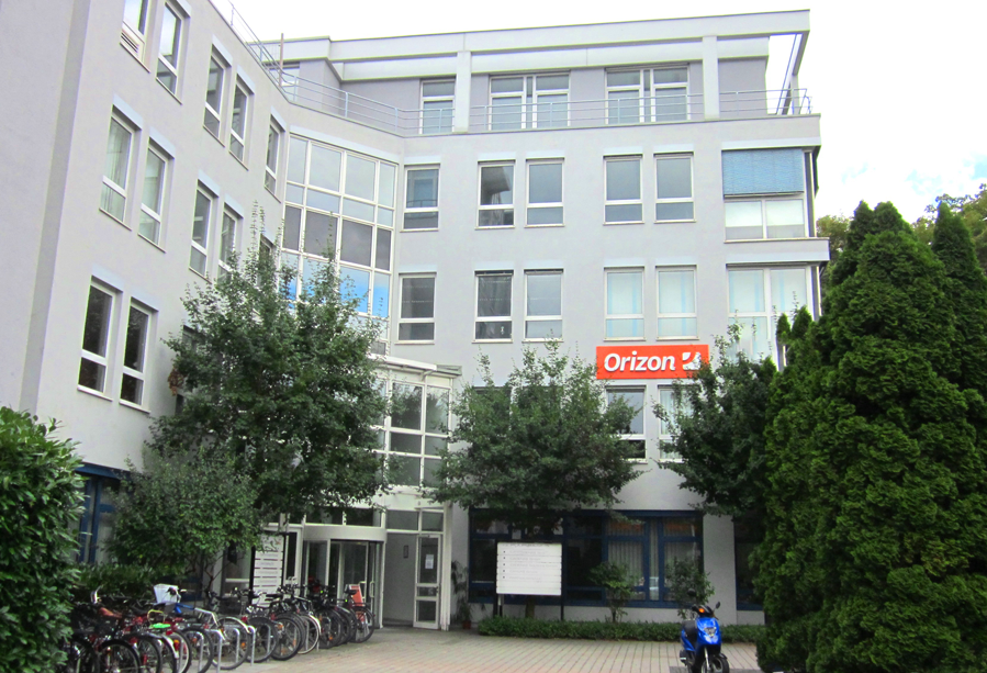 Orizon headquarters in Augsburg. Berliner Alle.